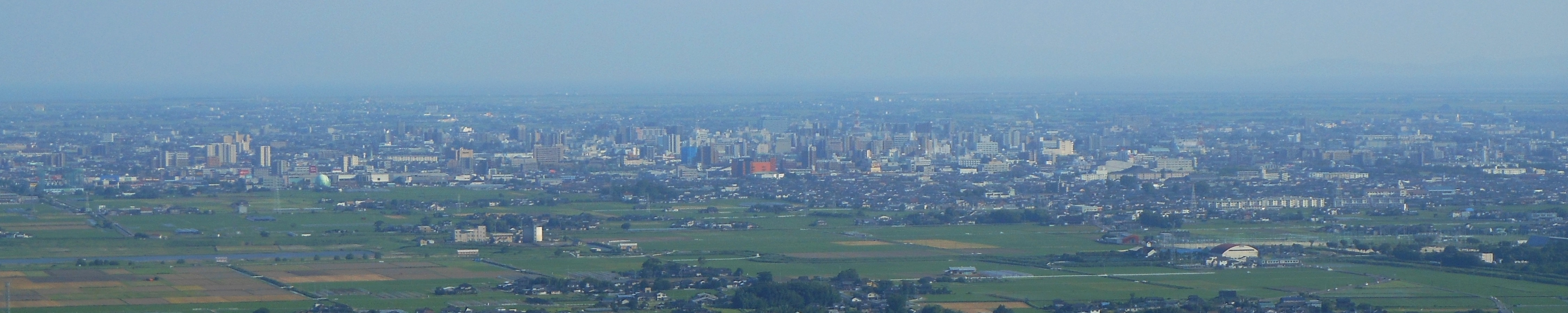 Cityscape of Saga city from mount Kinryu.